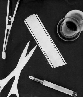 Photogram of several photographic objects (the strip of film would have been completely exposed, ie black, thereby blocking the light from the paper used, and hence leaving it white).